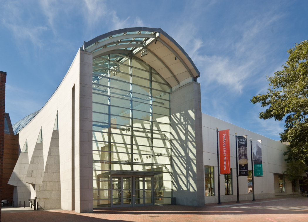 This is the main entrance to the Peabody Essex Museum in Salem, Massachusetts.